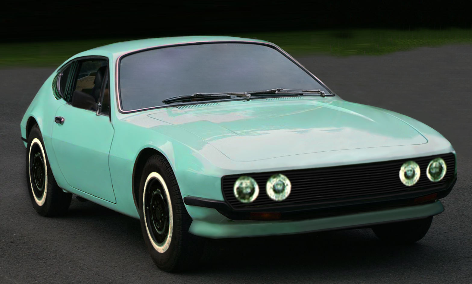 Somewhat crude representation of the VW/Dacon SP3 prototype, made upon a picture taken by this user, and following directions provided in a article and picture from "Revista Quatro Rodas" Magazine.